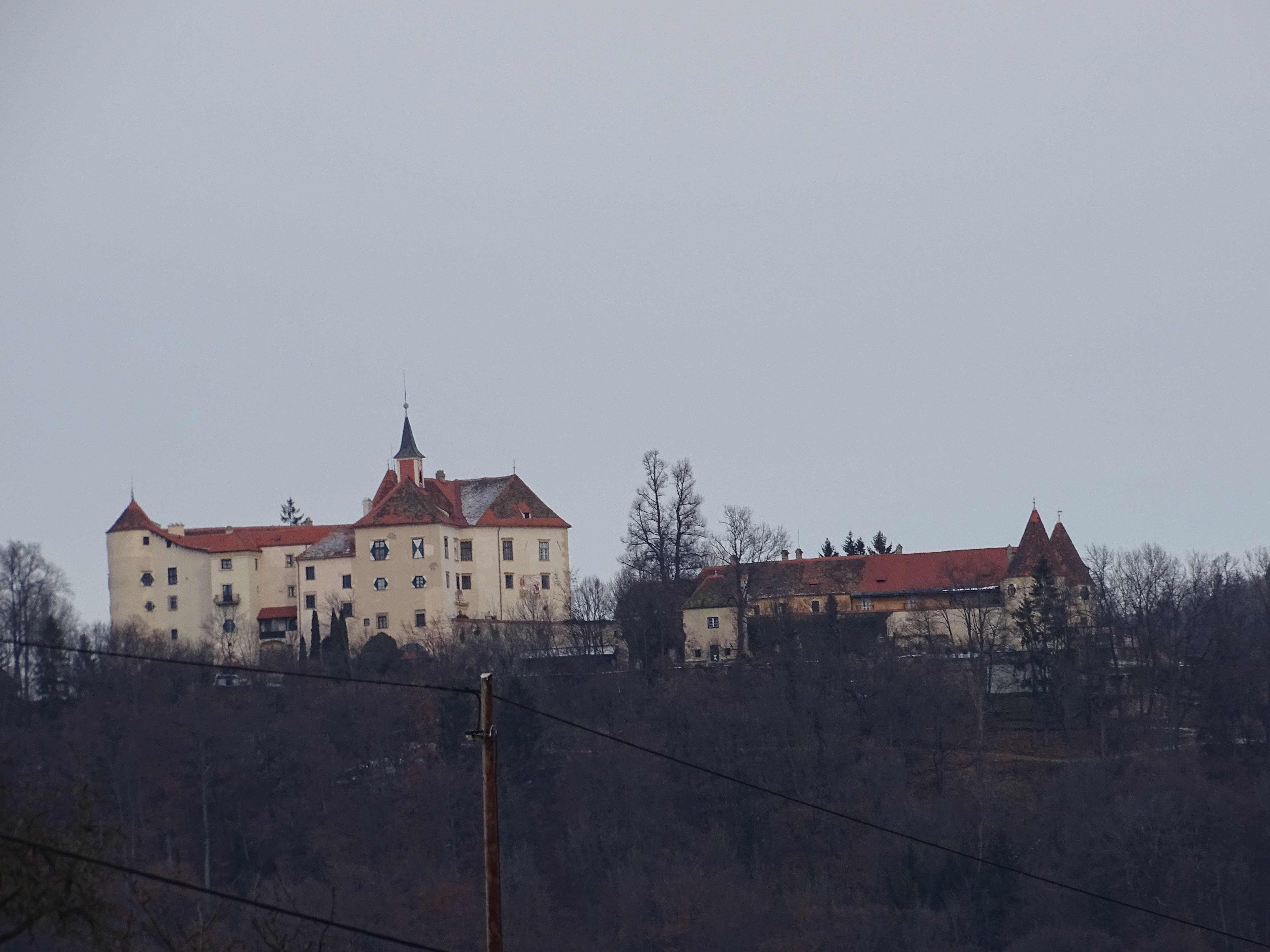 The castle Plankenwarth as seen from soutwest.